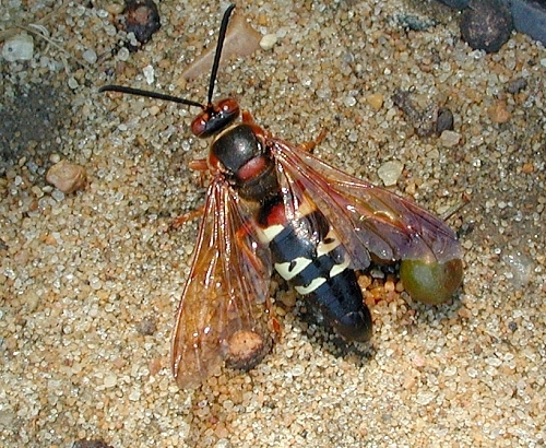 Eastern cicada-killer-wasps, Sphecius speciosus, enemy of Magicicada septendecim, 17-year-periodical cicada, 17-Jahr-Zikade, Sany Point, Maryland, Cesapeake Bay, USA